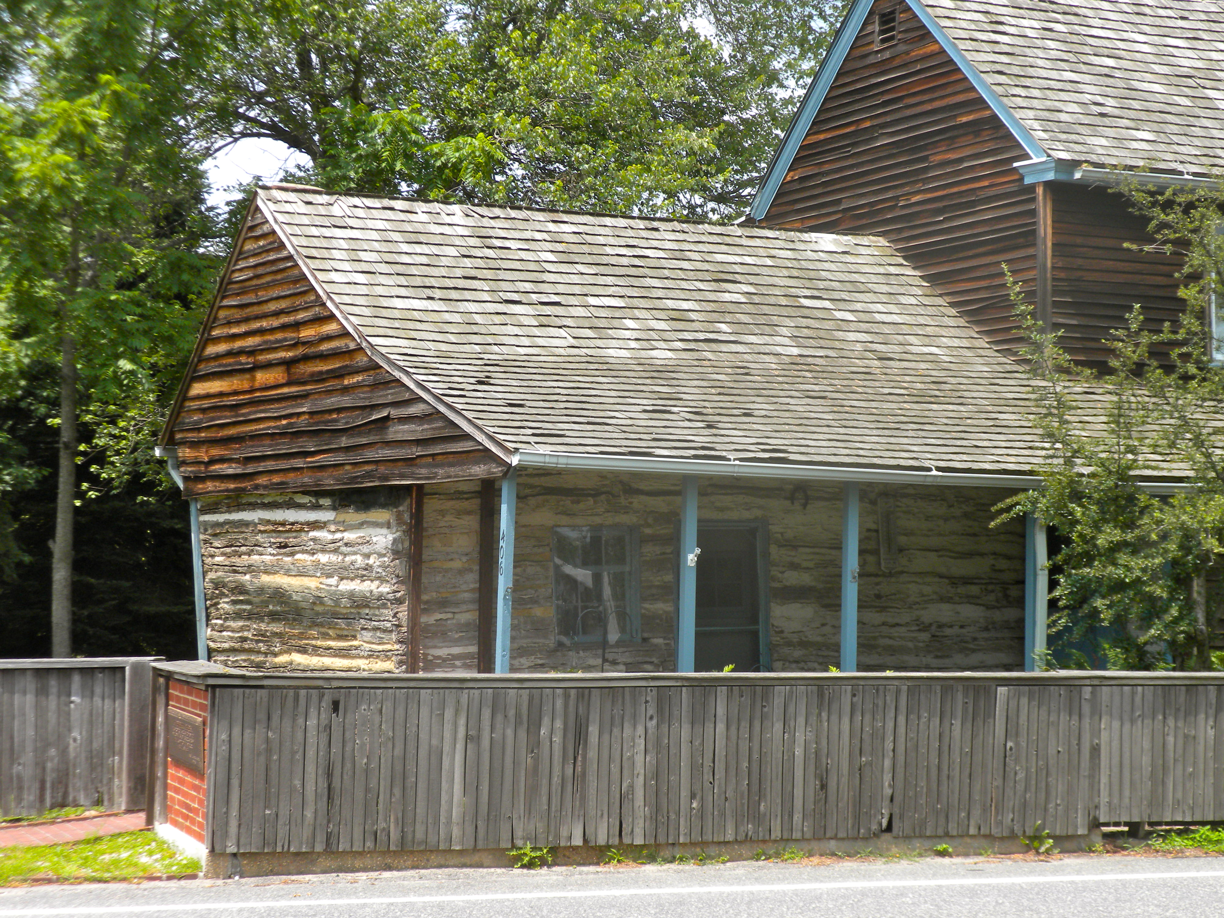 C. A. Nothnagle Log House on NRHP since April 23, 1976. On Swedesboro-Paulsboro Rd., Gibbstown, New Jersey. Built 1638, claims to be (perhaps) the oldest standing wooden structure in the Western hemisphere. Pretty old in any case. And yes the left (south) wall looks like it is about to fall down, even more so in person than in the picture.